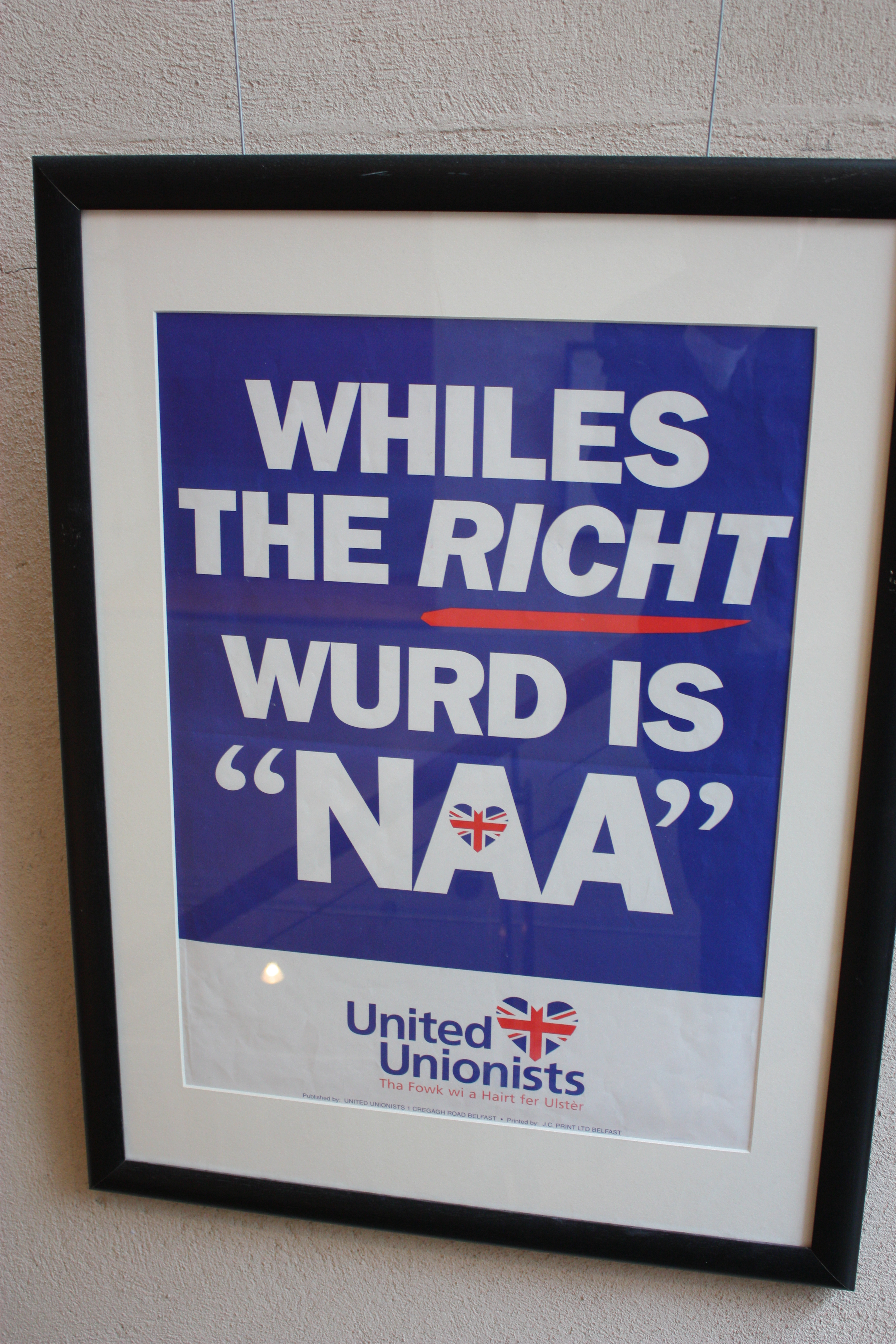 "Whiles the Richt Wurd is NAA" (United Unionists, 1998), Troubled Images Exhibition, Linen Hall Library, Donegall Square North, Belfast, Northern Ireland, August 2010